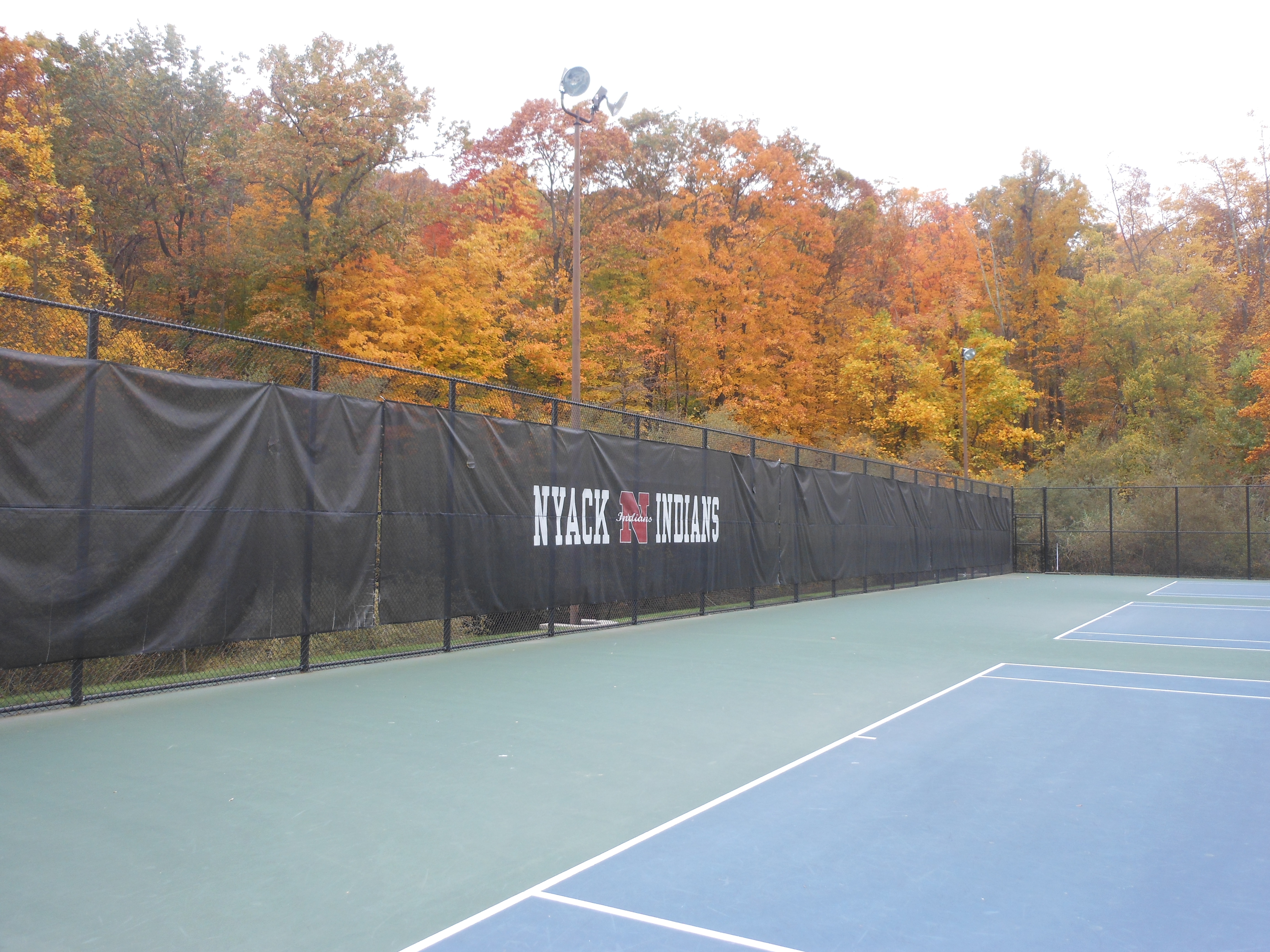 Nyack High School Tennis in Nyack, NY